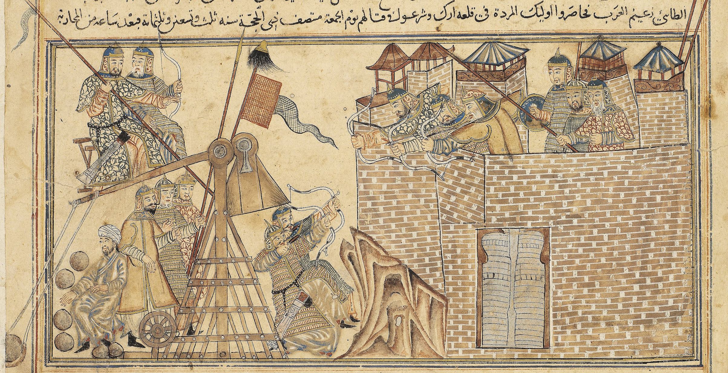 The father was an example for the son: "Mahmud ibn Sebuktegin attacks the fortress of Zarang," from a history of the world composed c.1307 (downloaded Jan. 2006) "History of the World, by Rashid al-Din (707 AH, 1307 AD). This superbly illuminated MS history of the world was written in approximately 707 AH (1307 AD), collected by Lt-Col John Baillie, Professor of Arabic Fort William College, Calcutta. It complements the MS formerly in the Royal Asiatic Society's Collections and now in private hands."